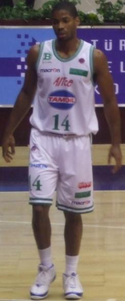 Gary Neal with Benetton Treviso